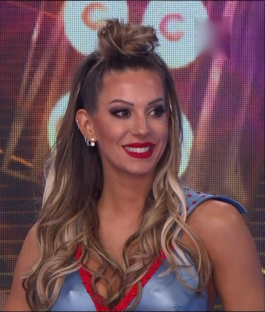 Noelia Marzol durante el duelo de cumbia en el Bailando 2019